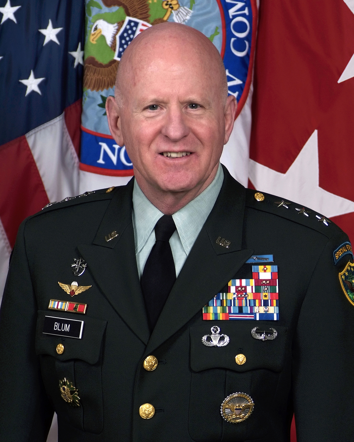 Lieutenant General H. Steven Blum, U.S. ArmyDeputy Commander, U.S. Northern Command (USNORTHCOM)Official photograph taken in 2009